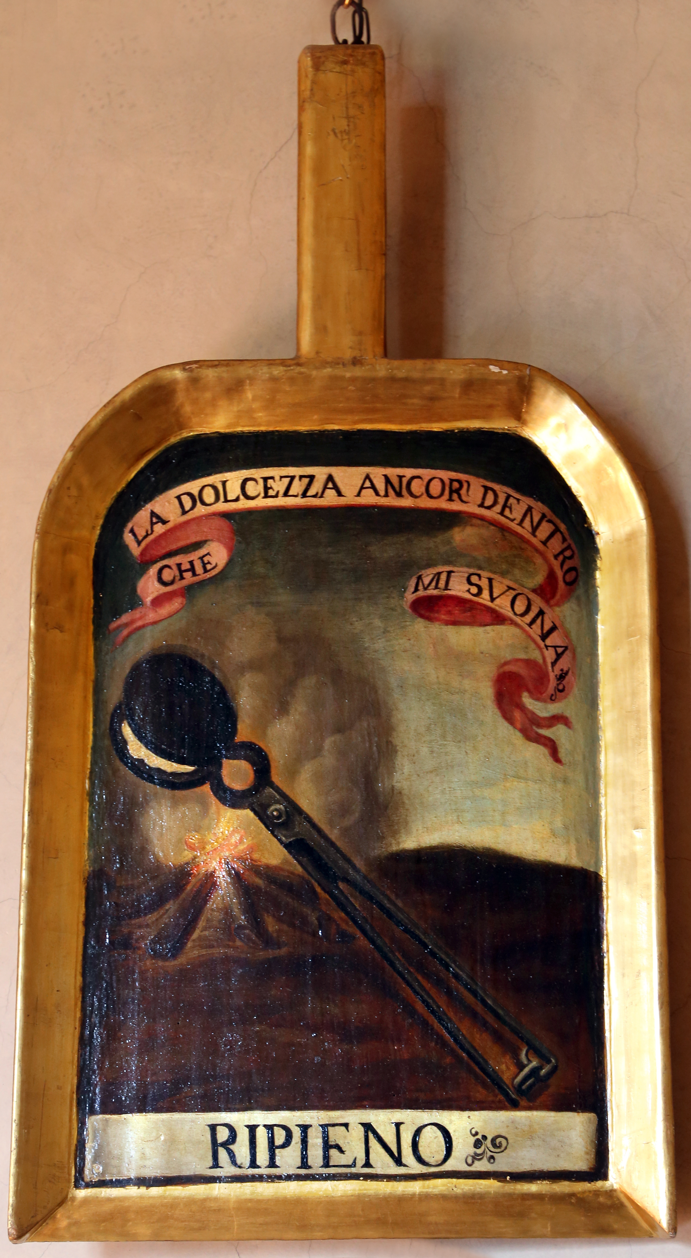 Shovels of Accademici della Crusca